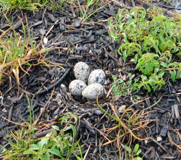 Sandpiper eggs nestled in a nest on the ground.